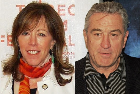 Tribeca Film Festival founders Jane Rosenthal and Robert De Niro